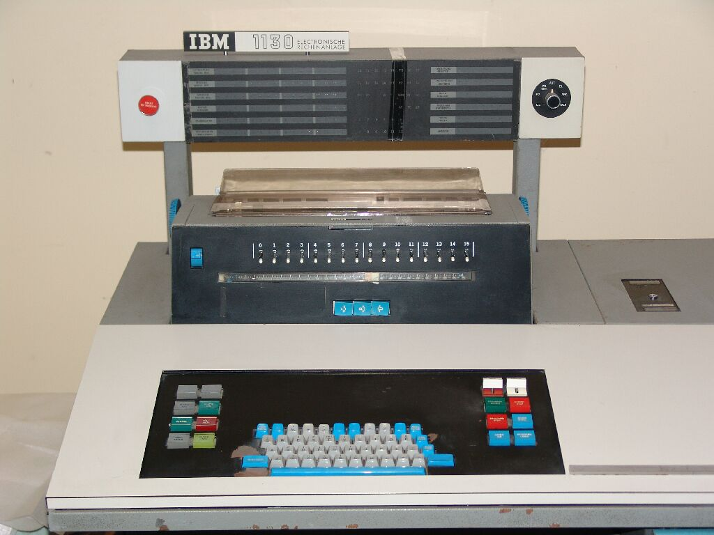 Photo of IBM 1130 console being restored. Photo by Bob Rosenbloom, used with permission, released under Creative Commons License